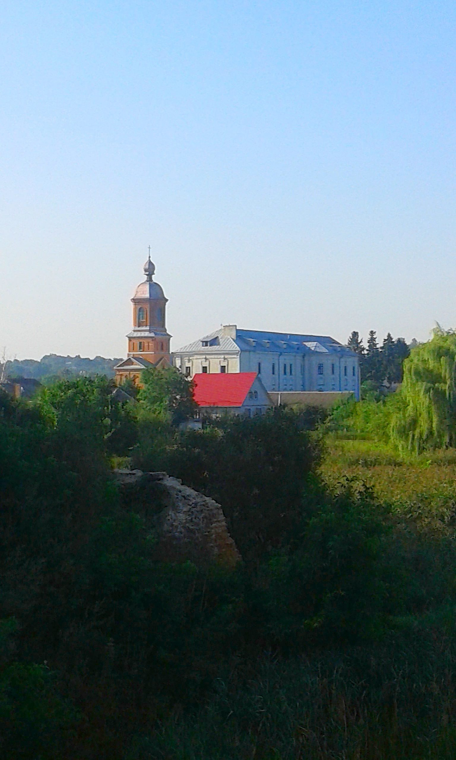 BELL TOWER AT ST POKROVSKY MONASTERY IN CITY OF BAR REGION OF VINNYTSIA STATE OF UKRAINE 20170819